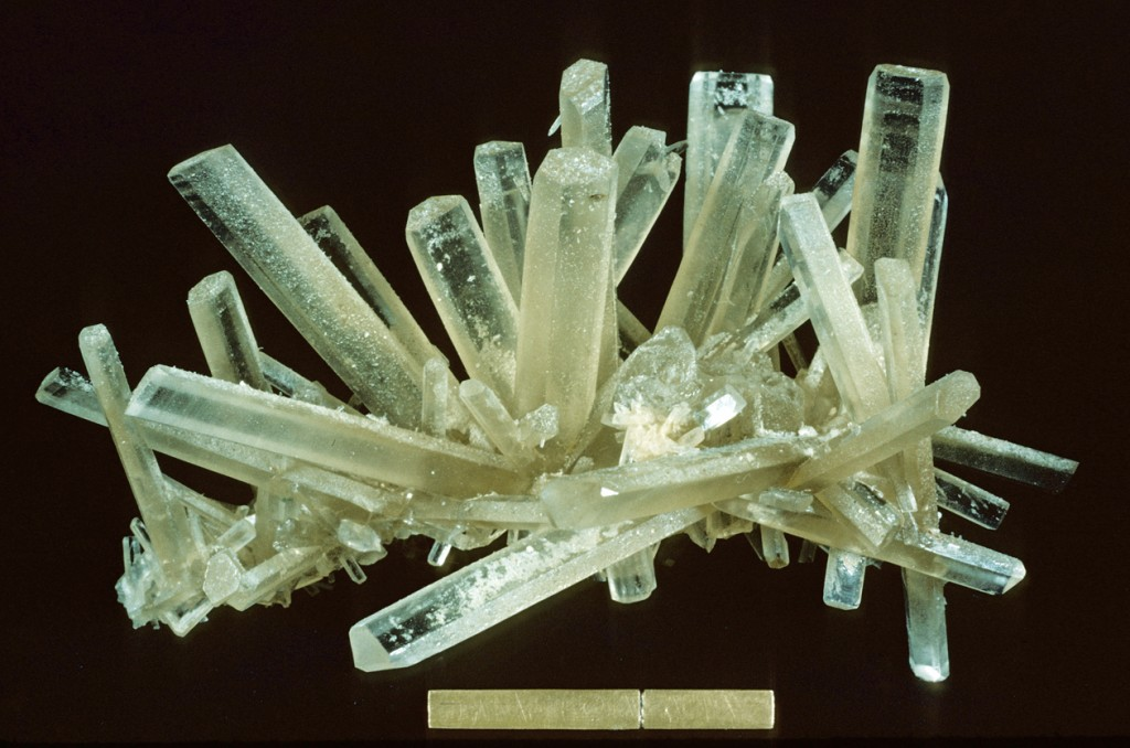 Borax crystals. Locality: US Borax Open Pit — U.S. Borax Mine (Pacific West Coast Borax; Pacific Coast Borax Co.; Boron Mine; U.S. Borax and Chemical Corp.; Kramer Mine; Baker Mine), Kramer Borate deposit, Boron, Kramer District, eastern Kern County—Mojave Desert, Southern California, U.S. Borax crystals from J. Minette collection. Scale at bottom of image is one inch with a rule at one cm.